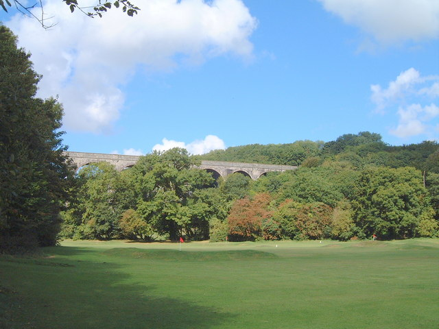 The pitch and putt golf course at Porthkerry Porthkerry viaduct in the background